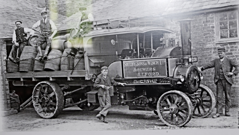 A Clayton & Shuttleworth steam wagon delivering beer.